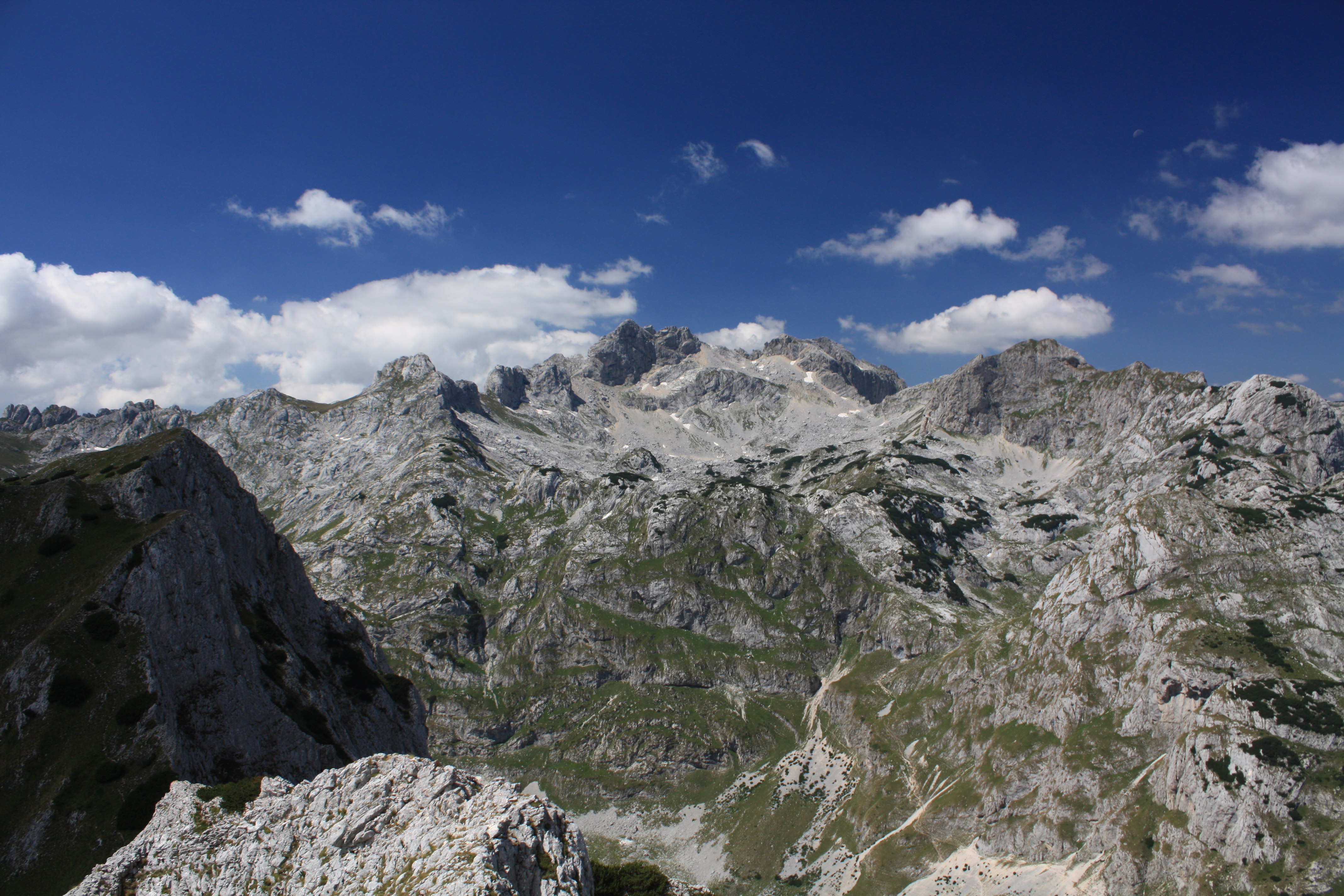 Bobotov kuk (2527 m), Durmitor mountains, Montenegro